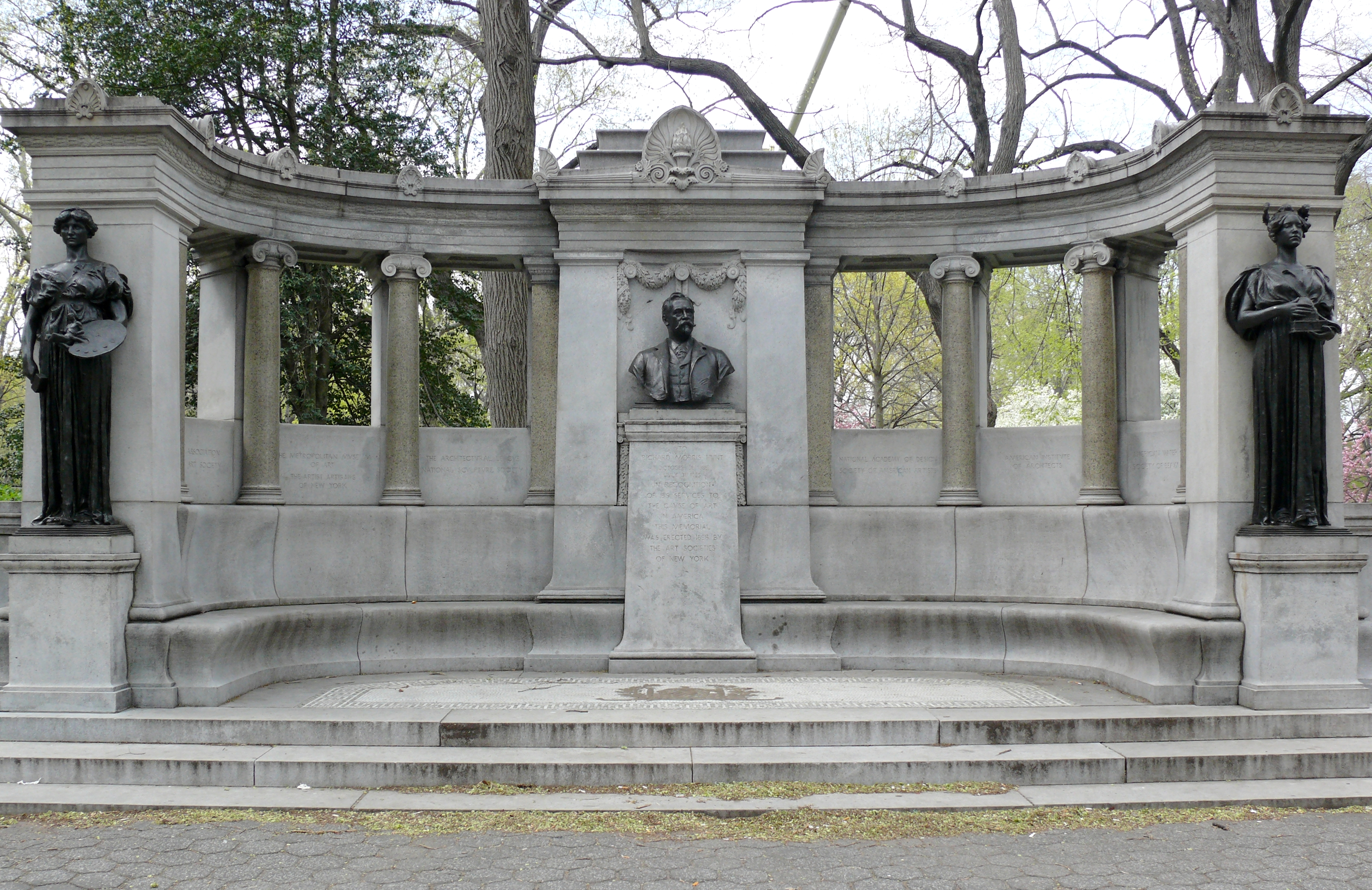 Richard Morris Hunt Memorial by Daniel Chester French (April 20, 1850 – October 7, 1931), Central Park, Manhattan, New York. Richard Morris Hunt Memorial by Daniel Chester French (April 20, 1850 – October 7, 1931), Central Park, Manhattan, New York.